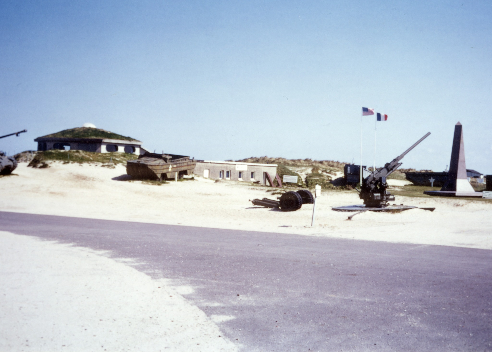 Le musée en 1964